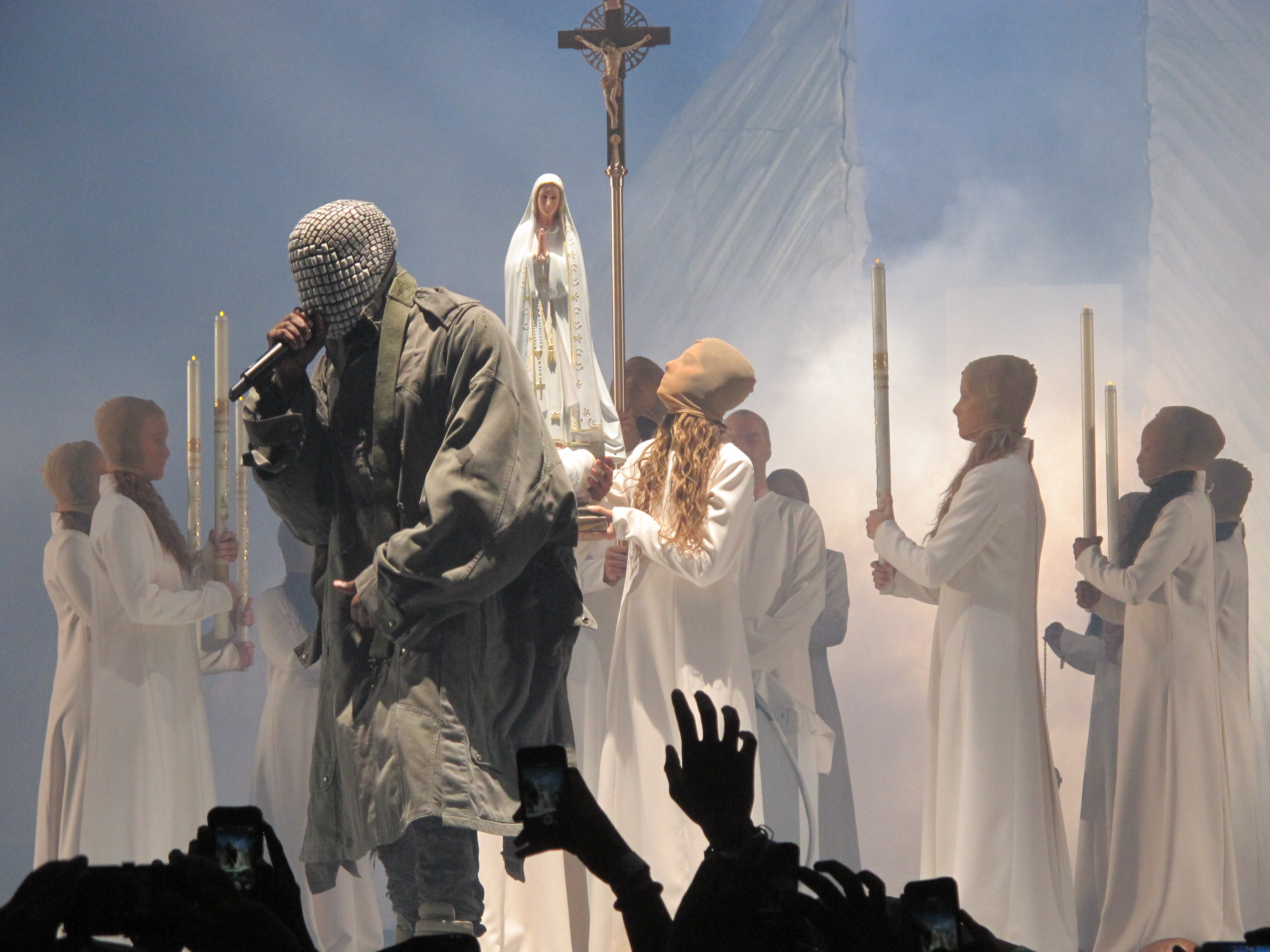 Kanye West performing atop a mountain at the Verizon Center on November 21, 2013 in Washington, D.C. on The Yeezus Tour.